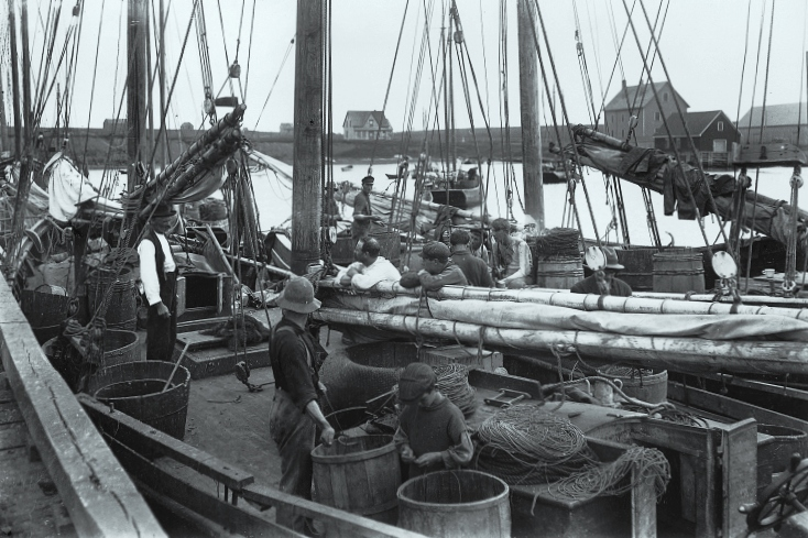 Photograph, Fishing boats, Souris, PE, 1910, Wm. Notman & Son, Silver salts on glass - Gelatin dry plate process - 12 x 17 cm